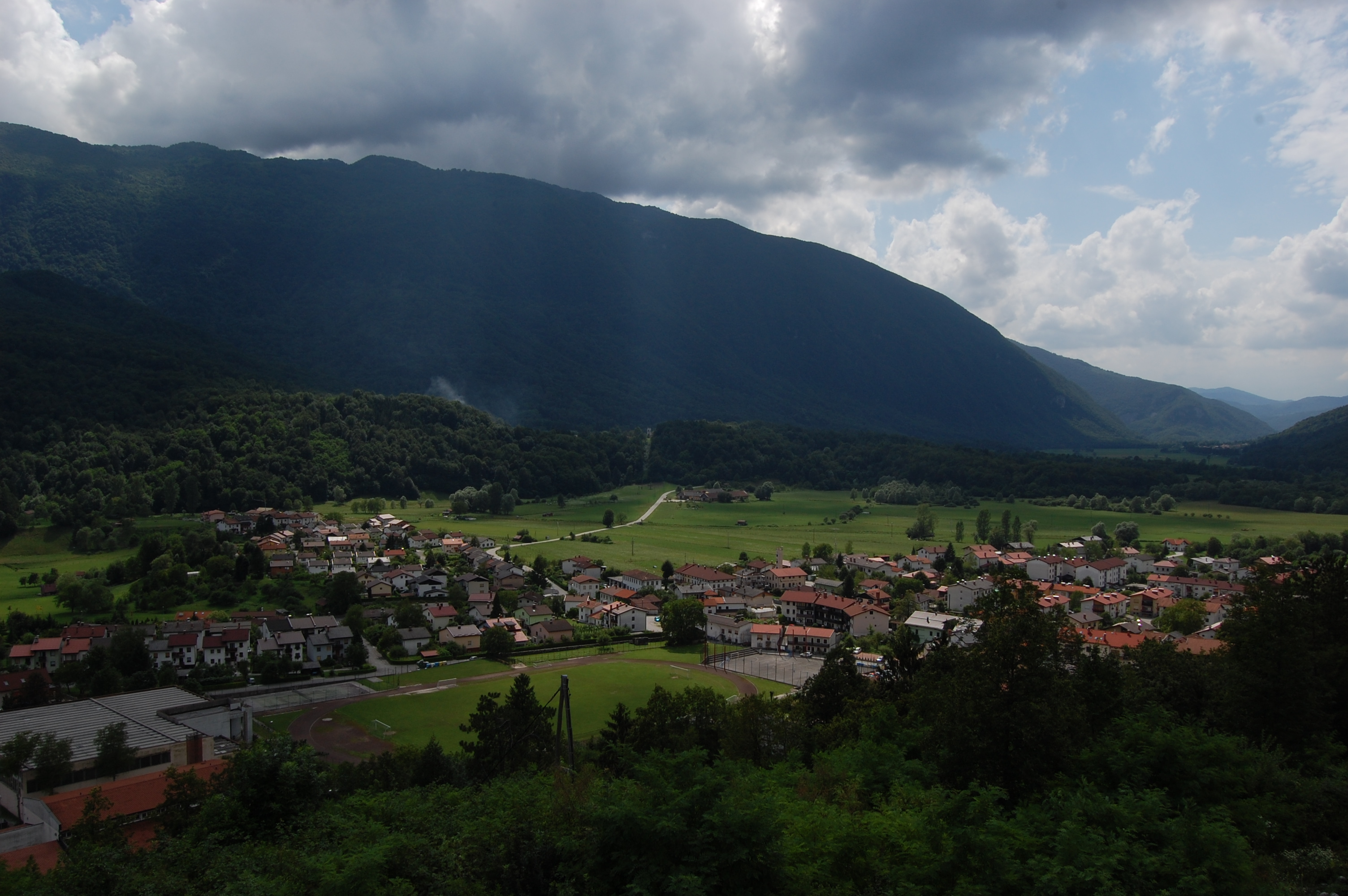 Kobarid, July 2008.